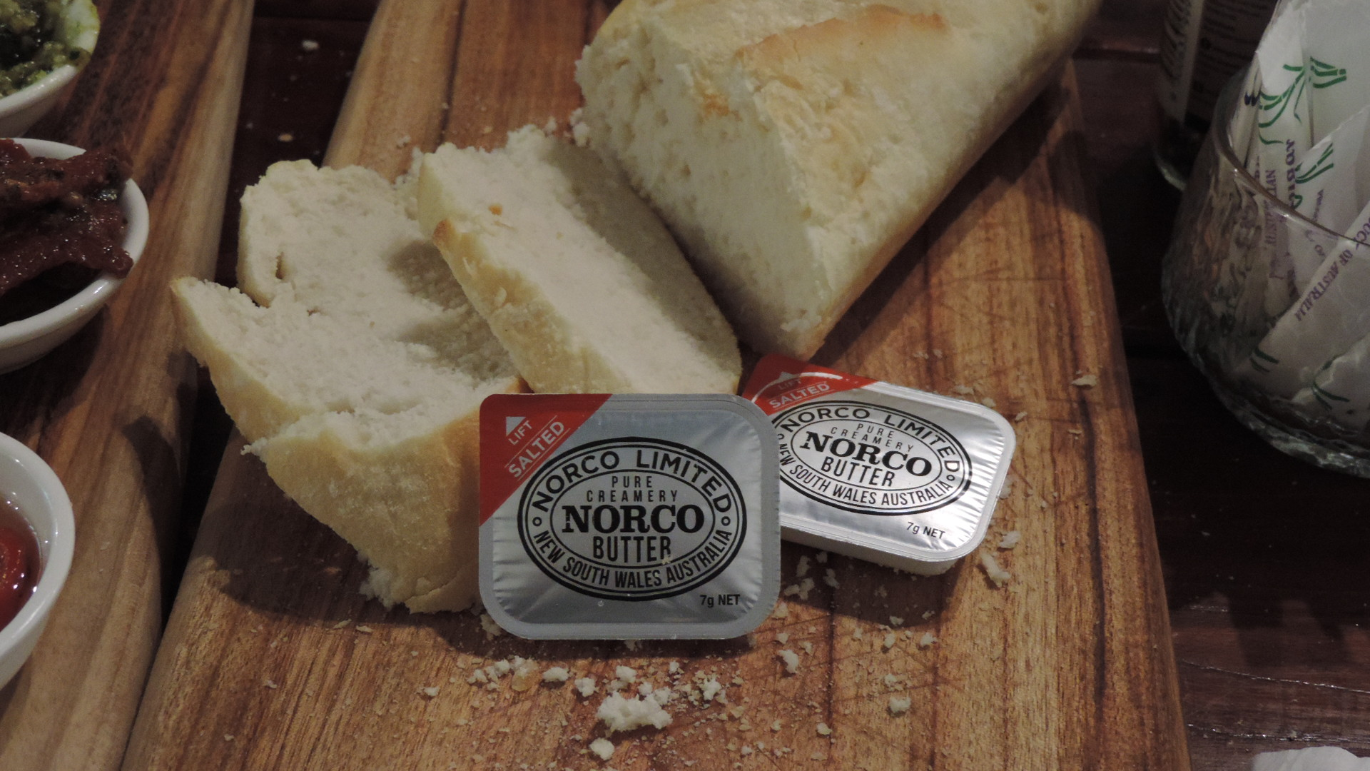 Norco Butter with bread, Jersey Girls Cafe, Thulimbah, Queensland, 2015